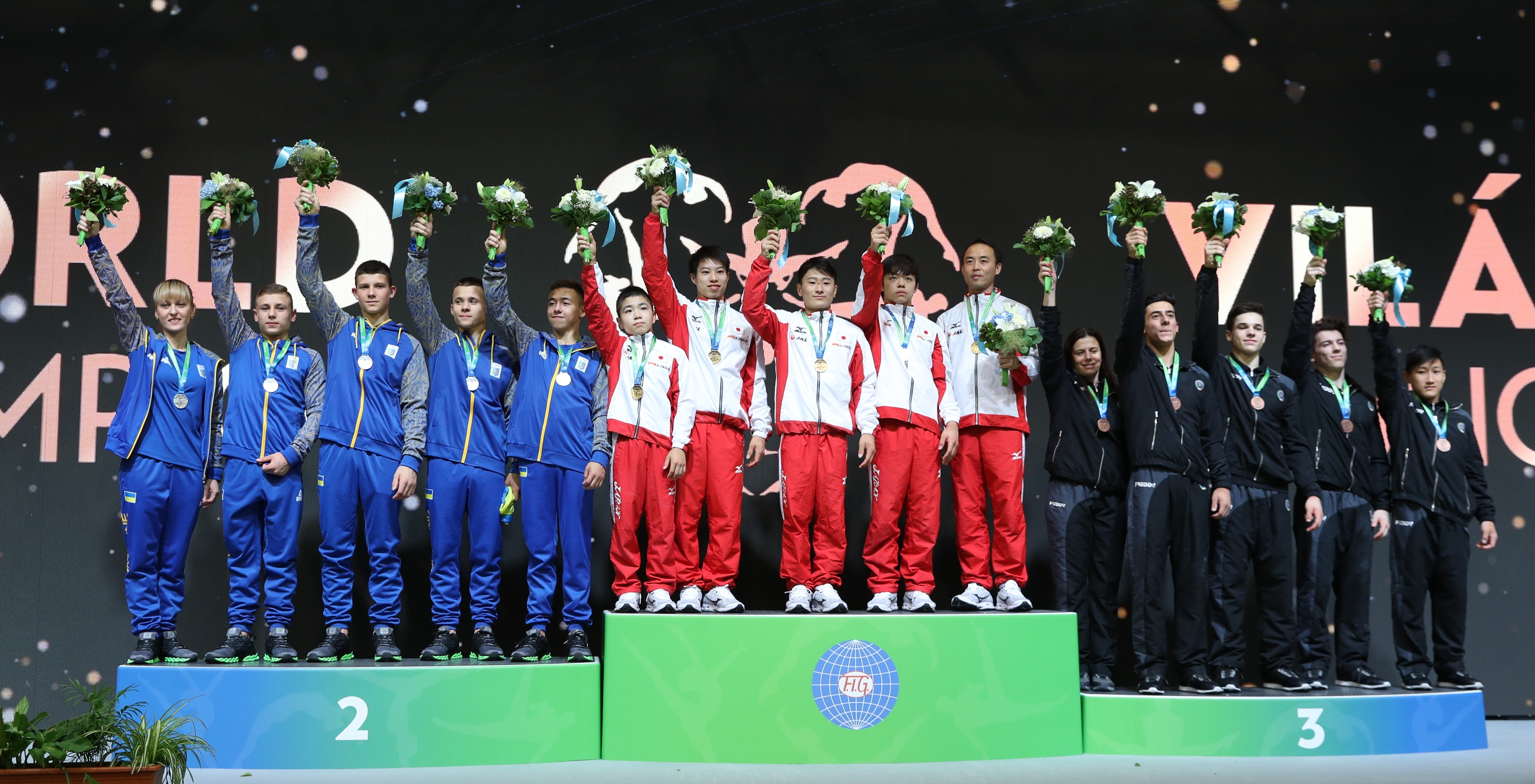 Victory ceremony for the boys' team final at the 1st FIG Artistic Gymnastics Junior World Championships on 27 June 2019 in Győr, Hungary. Depicted: Azusa Emata. Dmytro Shyshko. Illia Kovtun. Ivan Brunello. Lorenzo Bonicelli. Lorenzo Minh Casali. Mirko Galimberti. Nazar Chepurnyi. Ryosuke Doi. Shinnosuke Oka. Takeru Kitazono. Volodymyr Kostiuk.